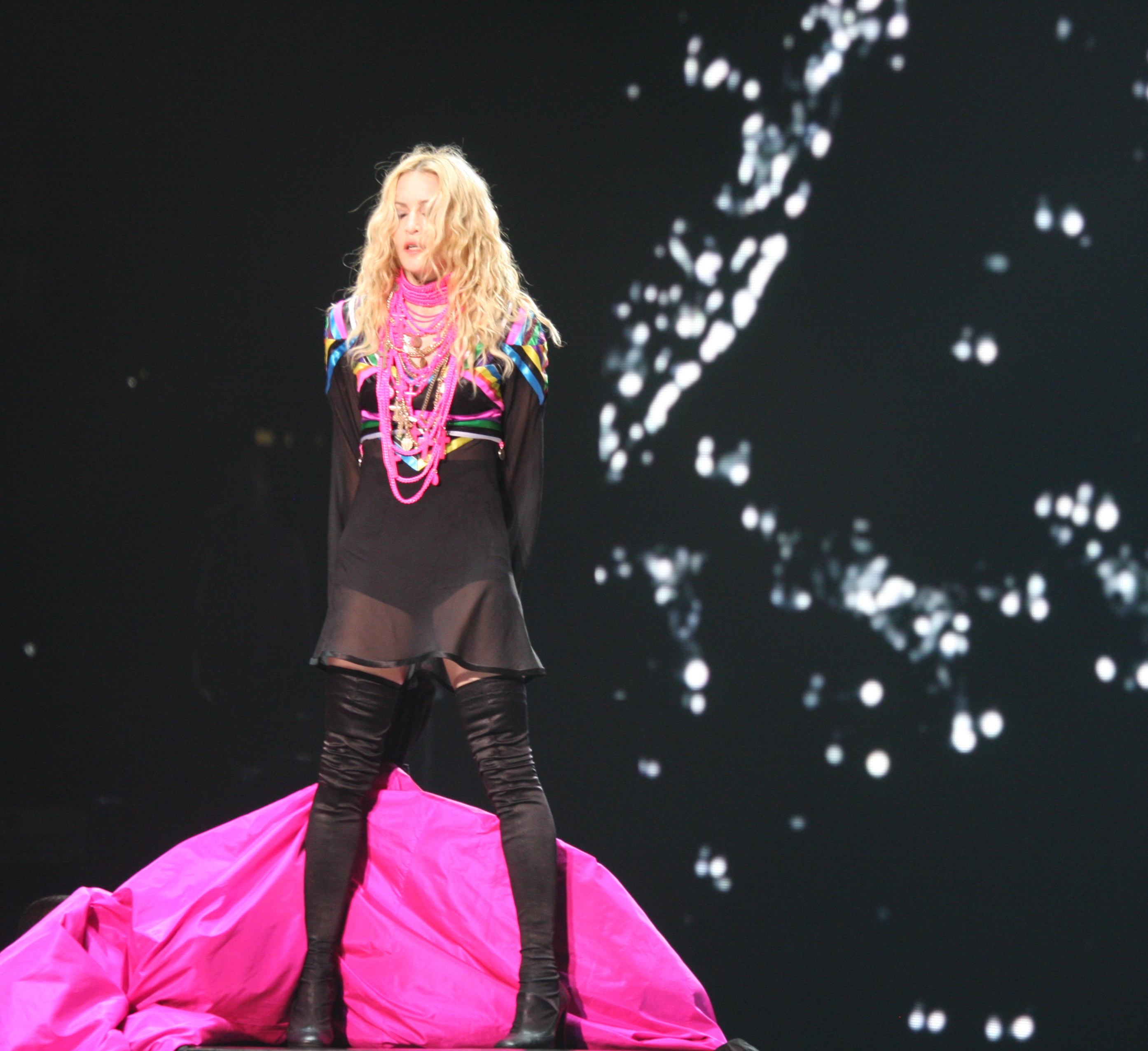 Devil Wouldn't Recognize You Sticky & Sweet Tour 2008